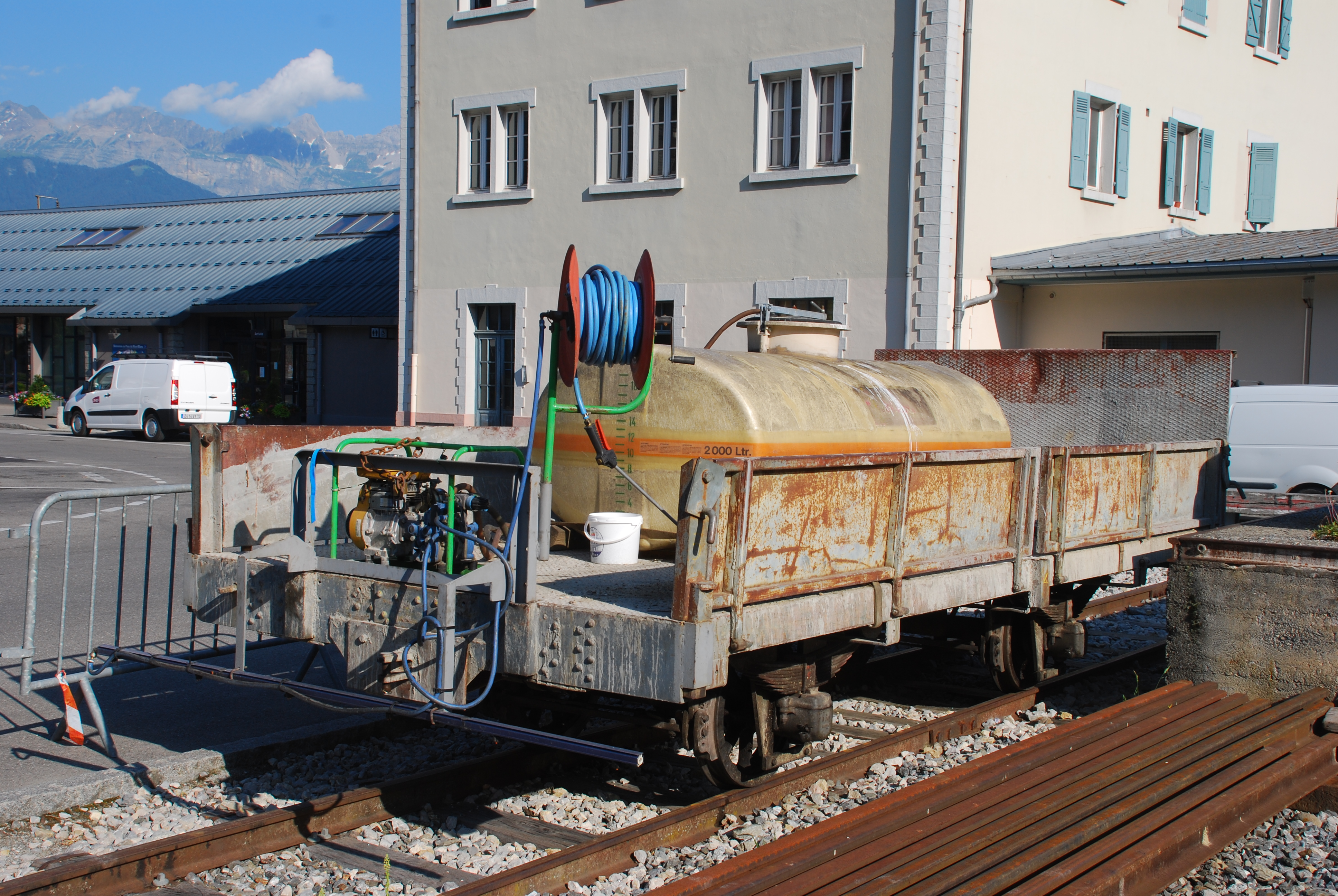 Tank wagon on the Tramway du Mont-Blanc.